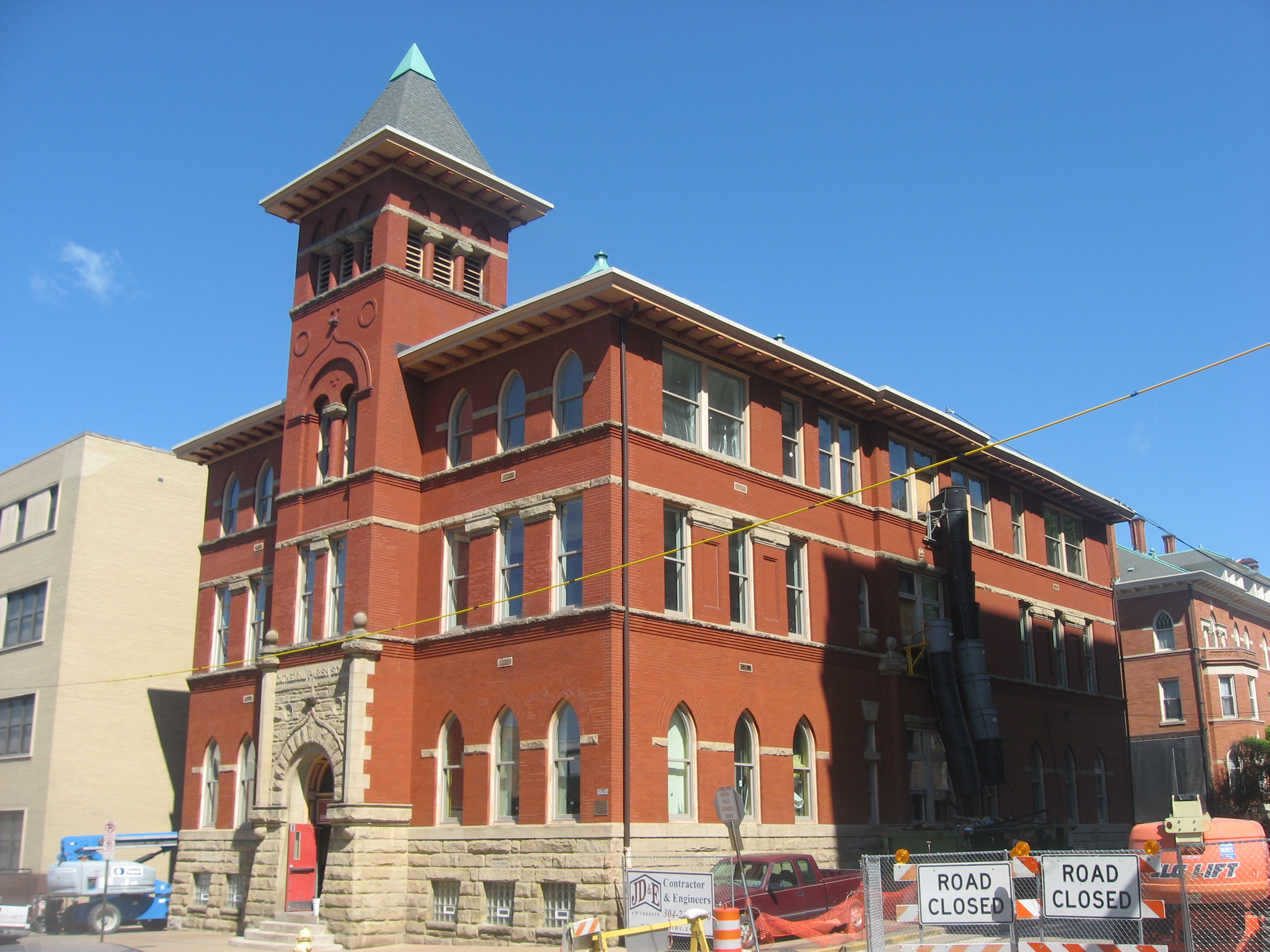 Front and eastern side of the Cathedral Parish School, located on the northwestern corner of the junction of Fourteenth and Byron Streets in Wheeling, West Virginia, United States. Built in 1896, it is listed on the National Register of Historic Places, and it is a part of a Register-listed historic district, the East Wheeling Historic District.